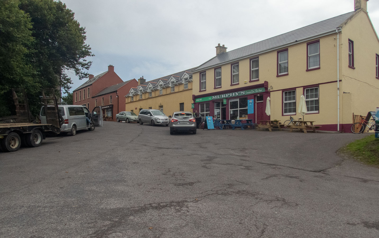 A good lunch. We had a fine bowl of soup in Murphy's, in the village of Rerrin on Bere Island, close to the terminal of the eastern ferry.